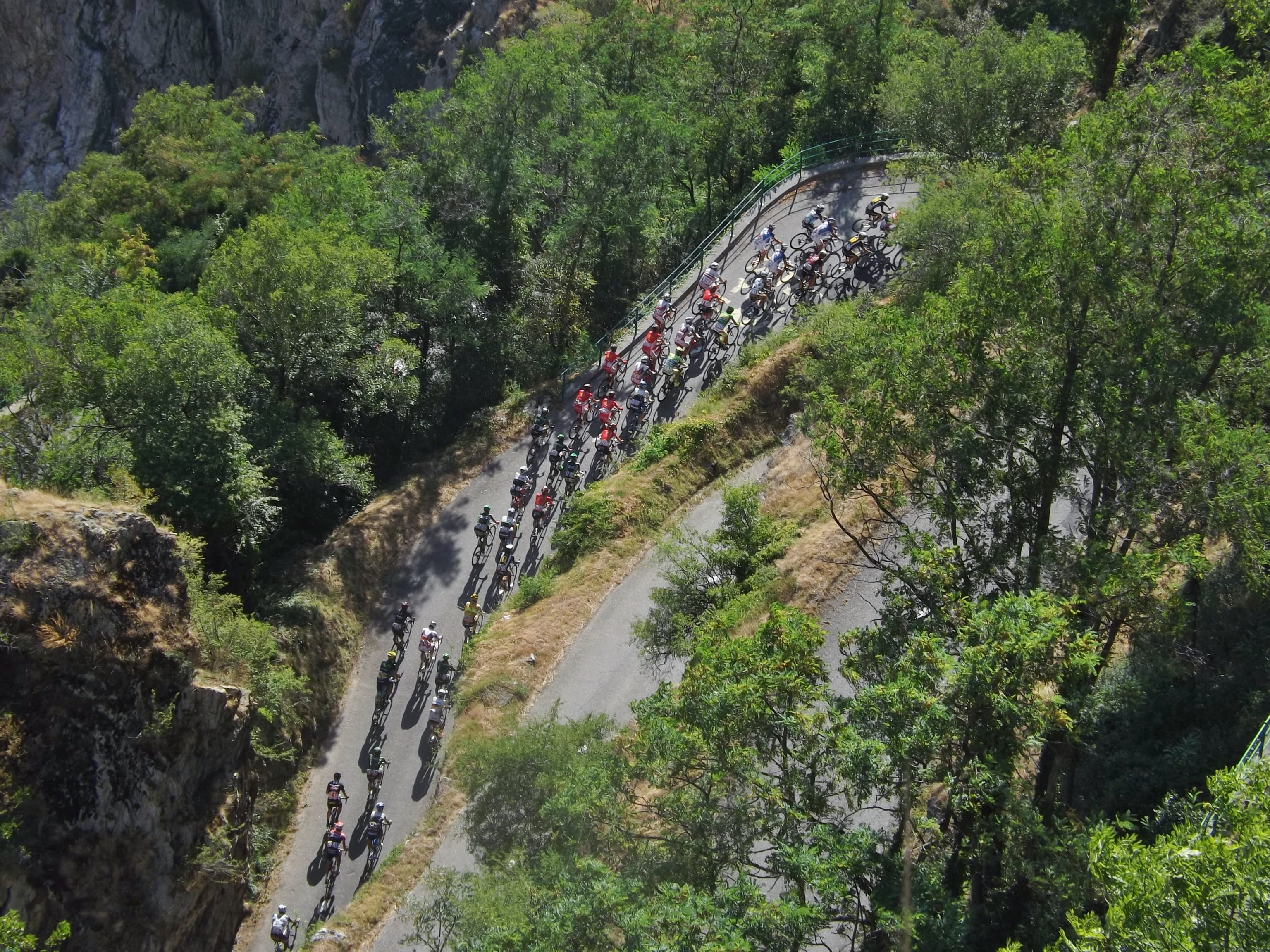 Sight of the Tour de France 2015 cyclist peloton climbing the 18 lacets de Montvernier road bends, in the Maurienne valley (Savoie) during the 18th stage.